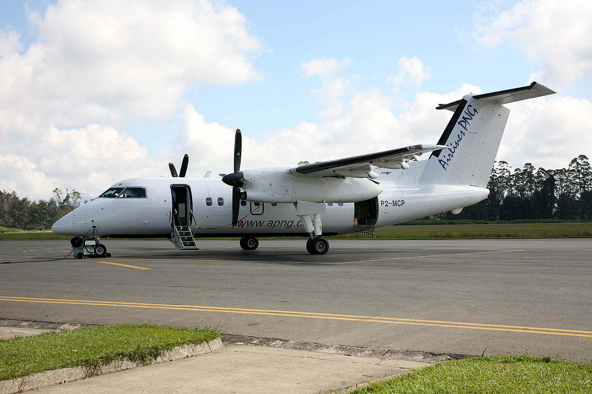 Airlines PNG's de Havilland Dash-8 Series 100 (P2-MCP) at Mt. Hagen's Kagamuga Airport, Papua New Guinea.